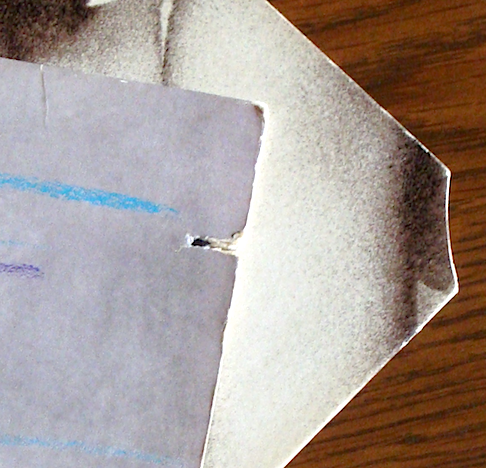 Two different ways of marking a Cut-Out record on Vinyl LP Jackets